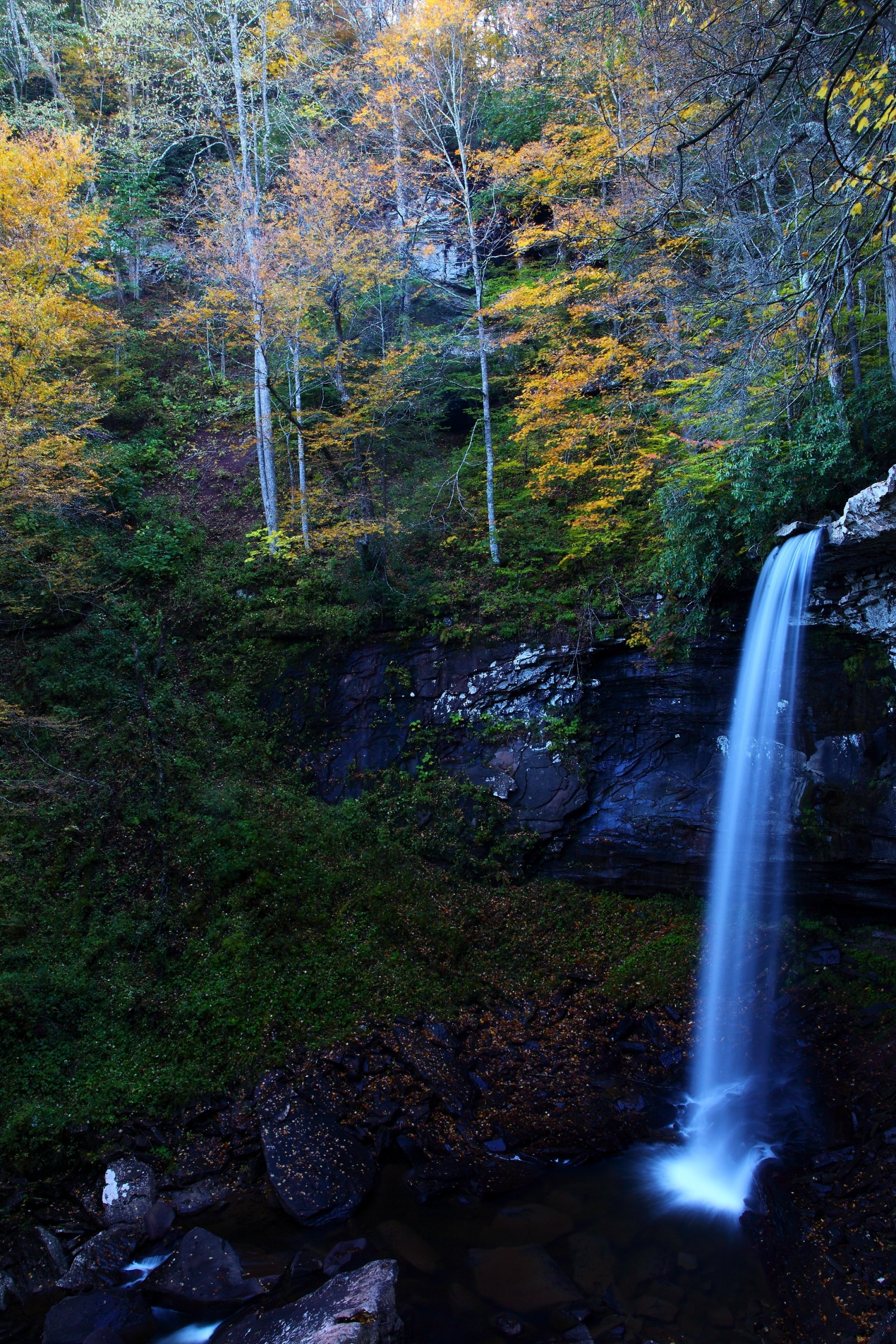 The Highest Waterfall in West Virginia. The Waterfalls at Falls Creek. 20 m (65 feet) high straight drop from the edge.